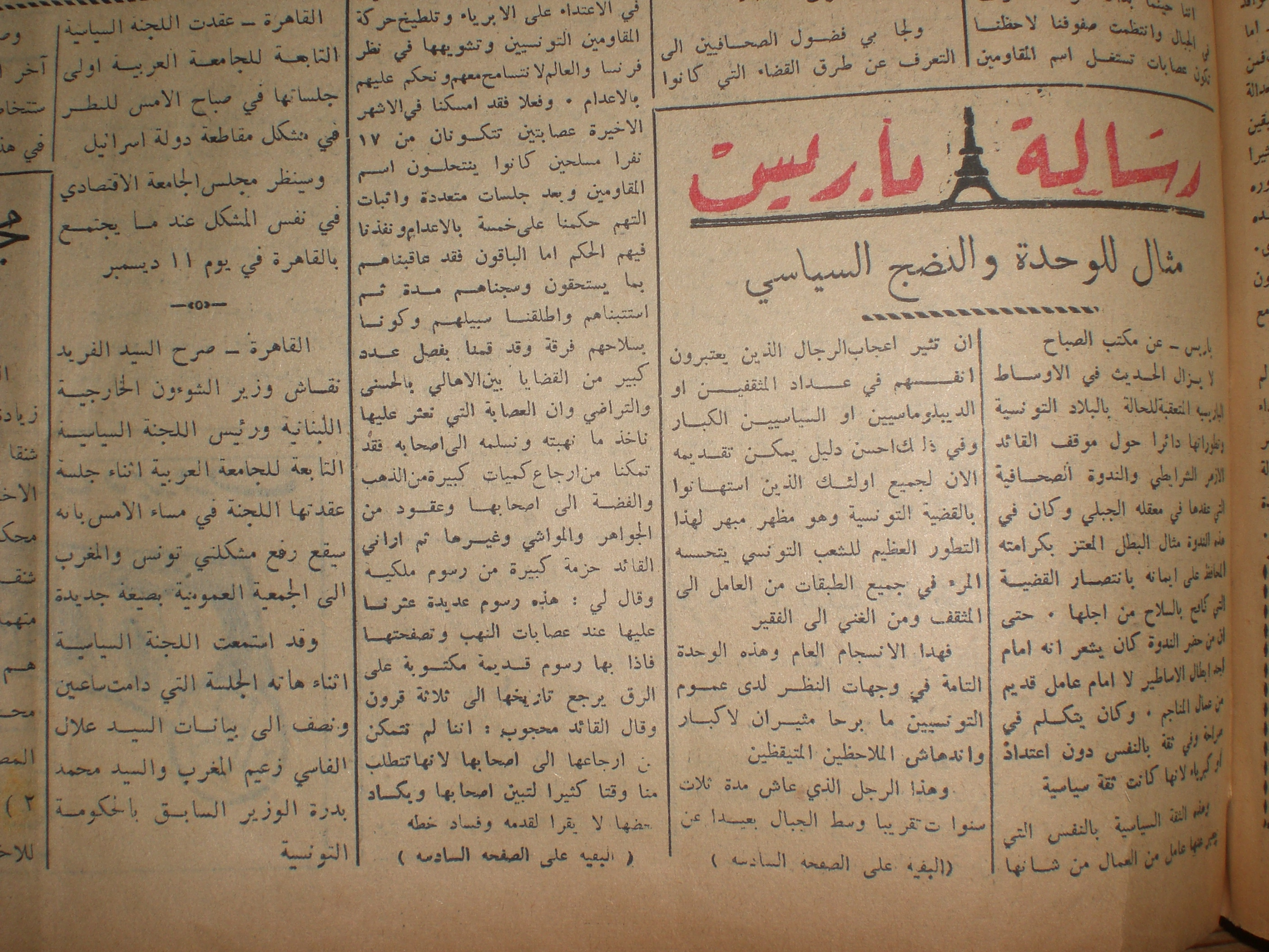 The front page of Sabiah, Tunisian newspaper, december 1955